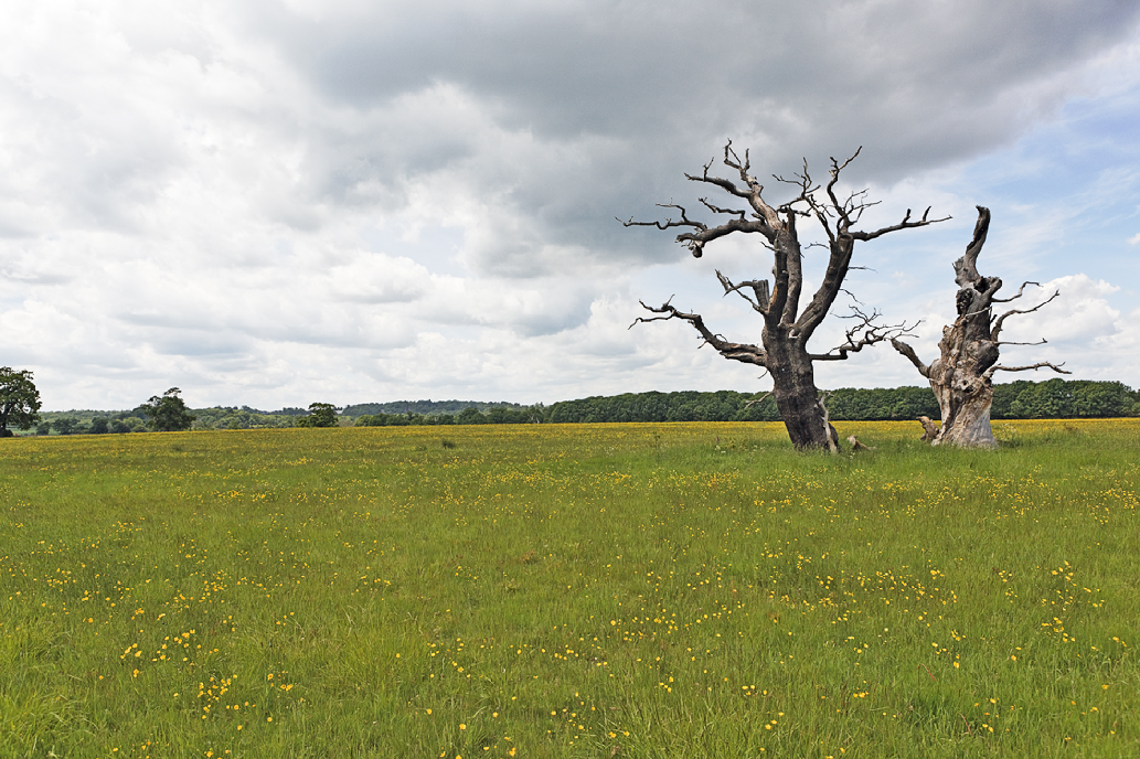 Great Park Windsor - meadow, buttercups & ancient oaks